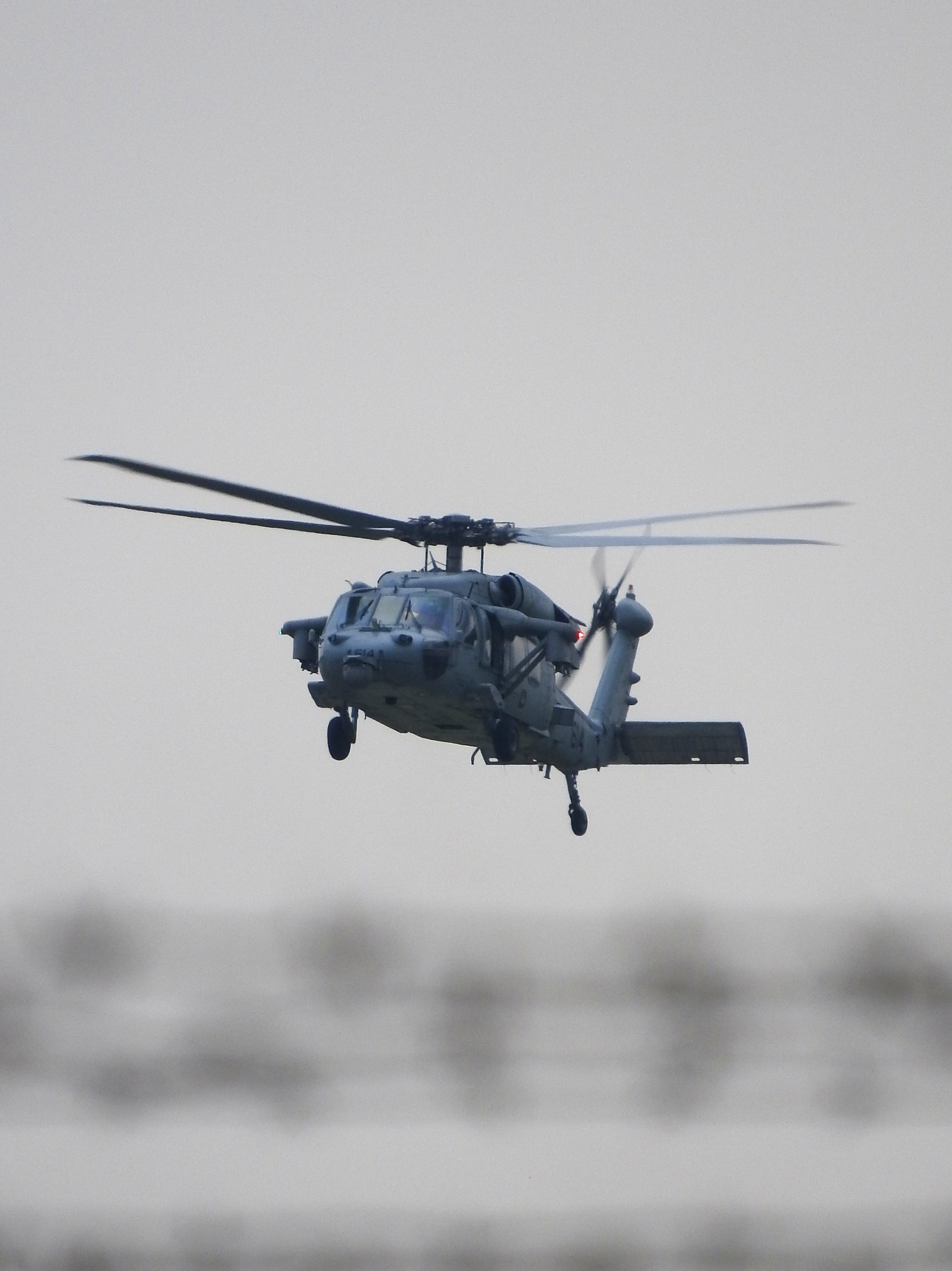 A US Navy Seahawk hovering over Naval Air Facility Atsugi in Kanagawa Prefecture, Japan on August 10, 2016